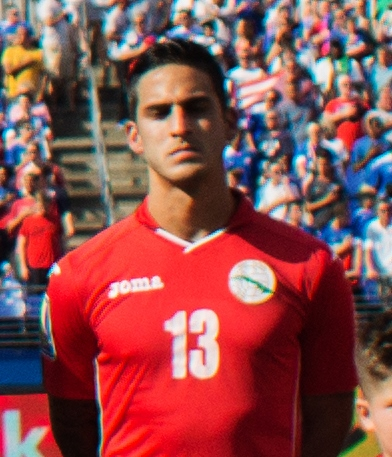 CONCACAF Quarter-Finals (USA vs Cuba) - Baltimore, MD (July 2015) Jorge Luis Corrales